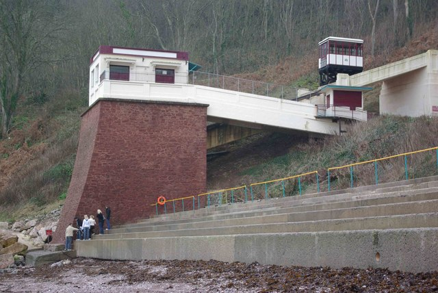 The bottom terminus of the Babbacombe Cliff Railway, in Torquay, Devon, England. For more information see the Wikipedia article Babbacombe Cliff Railway.